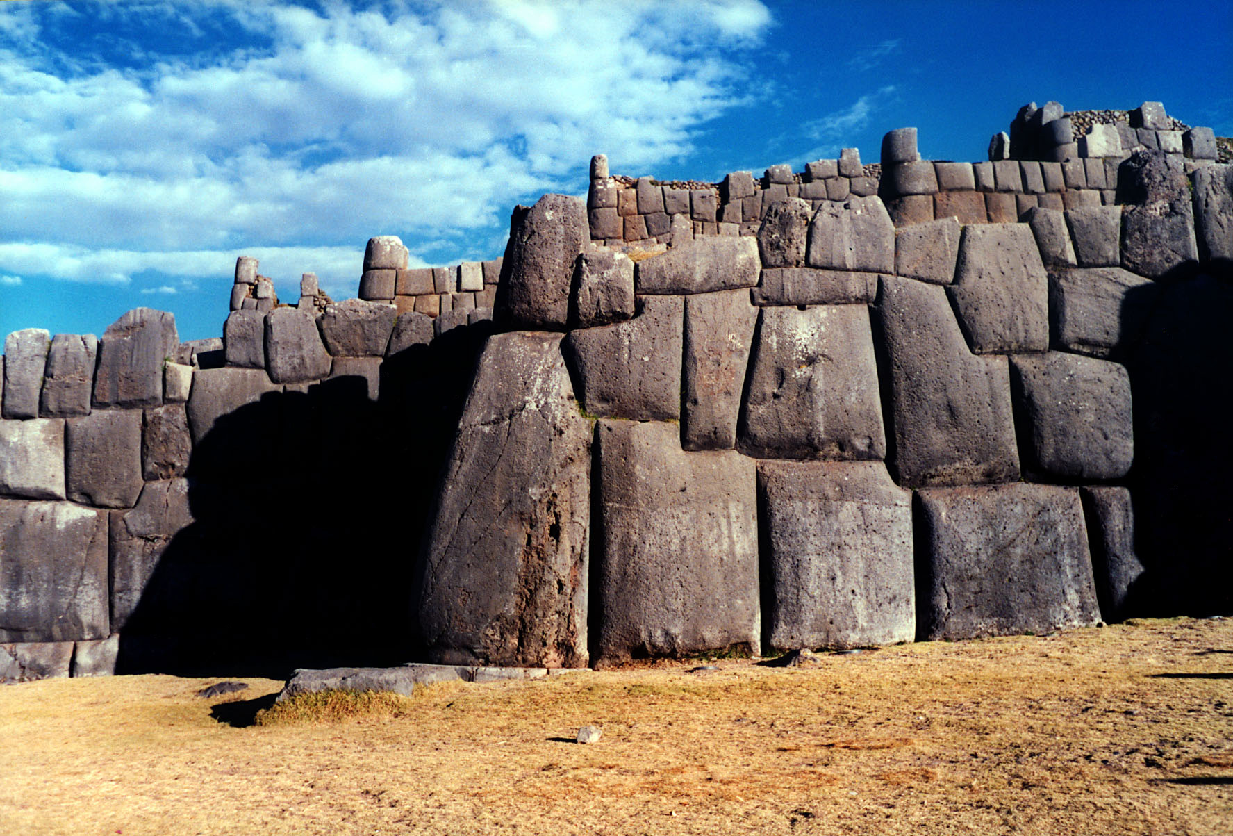 Sacsahuamán (Sacsayhuamán), Cusco, Peru. The photo was taken in June 2002 by Håkan Svensson (Xauxa).